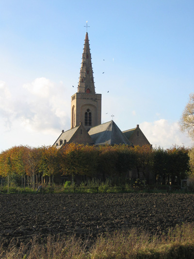 Church of Saint John the Baptist in Oudekerke, Diksmuide, West-Flanders, Belgium.